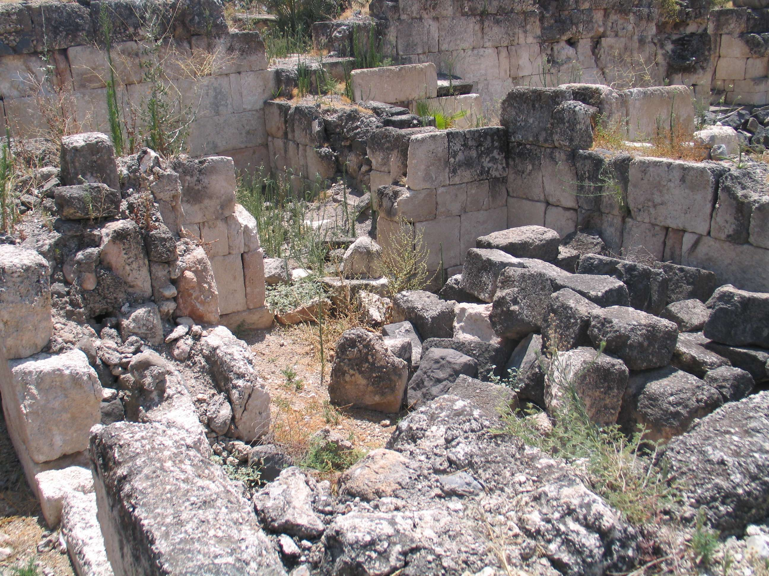 Ruins of Umayyad palace an Hurvat Minim (Khirbat al-Minya), Israel.